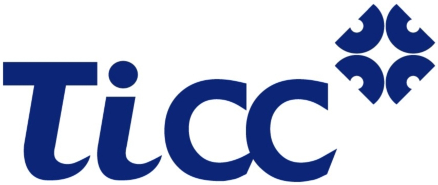 The Logo of TICC